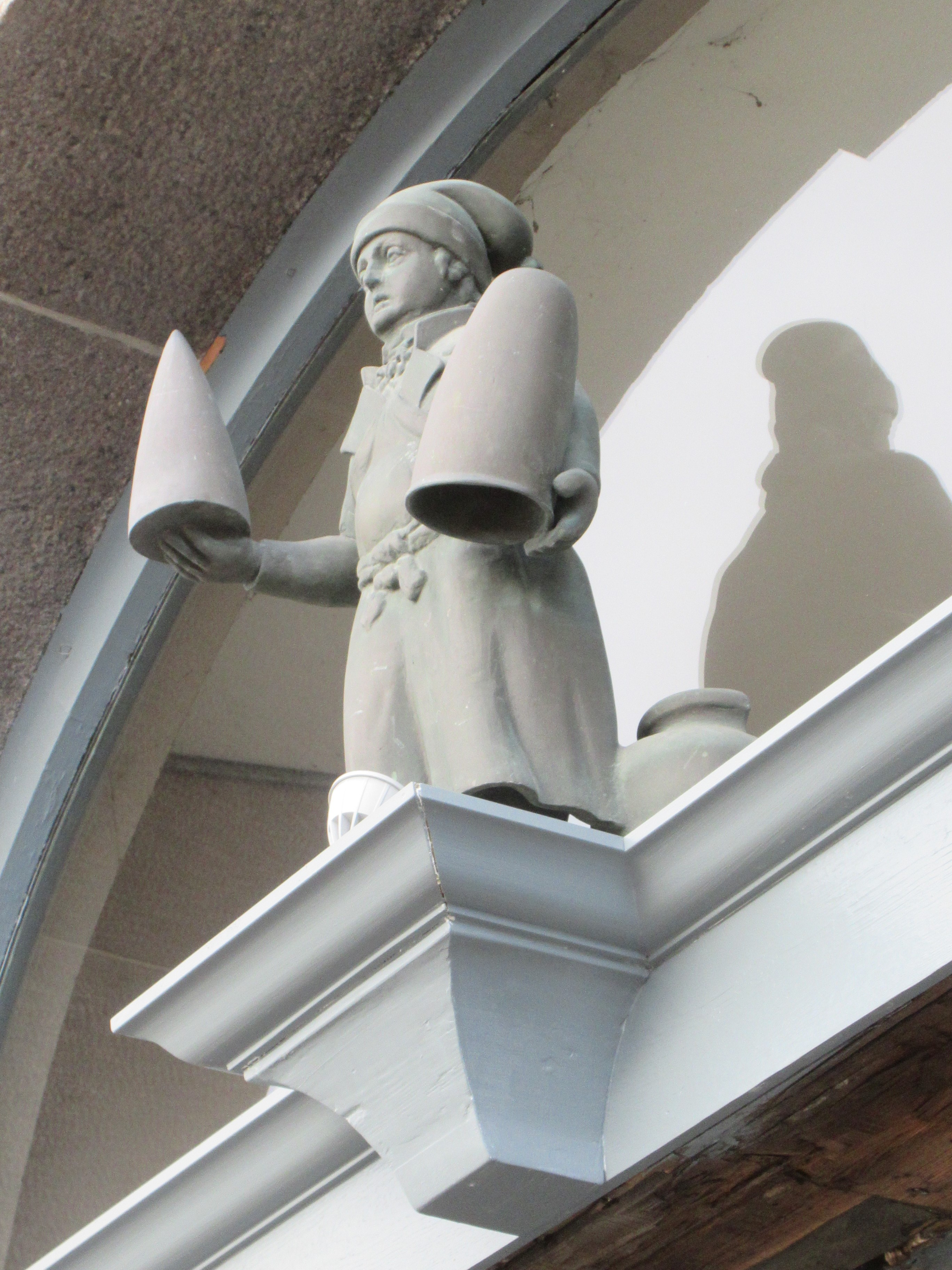 Fifure above the gateway in Nyhavn 11, Copenhagen, Denmark.